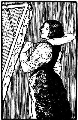 Illustration to Snow White by Otto Ubbelohde